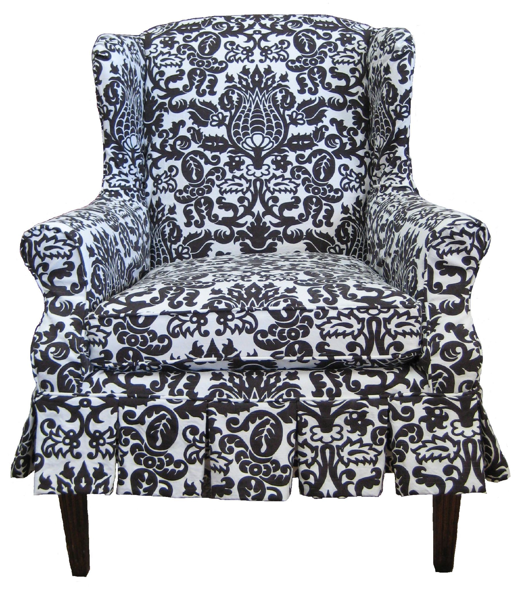 One-of-a-kind petite vintage wing chair slipcovered in cotton damask print, espresso and white, Regency style